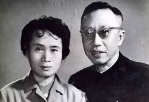 Li Shuxian (李淑賢; 1925 - 1997), second wife of Xuantong Emperor